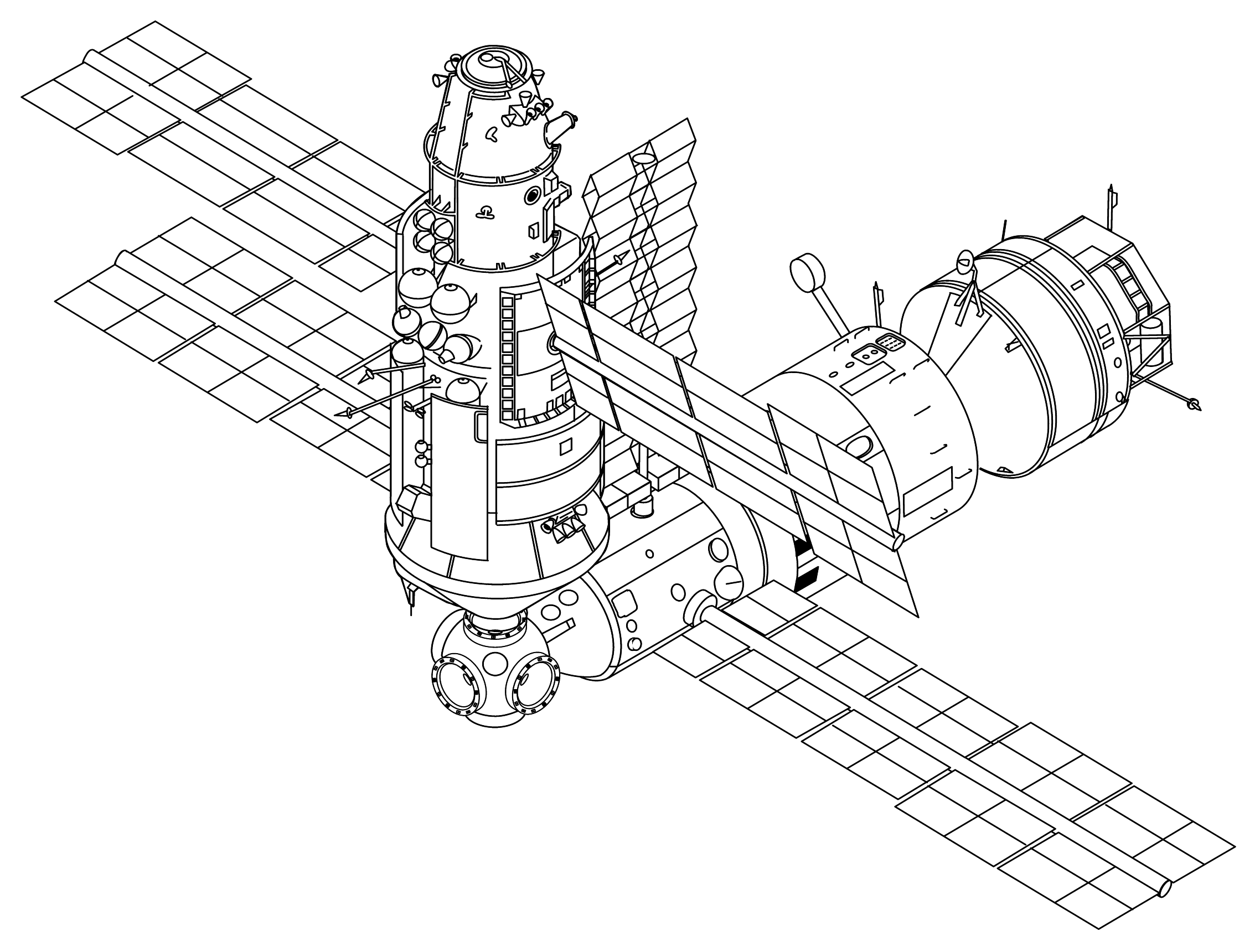 Mir base block (left), Kvant, and Kvant 2 (top) (1989). Soyuz-TM and Progress vehicles are omitted for clarity.